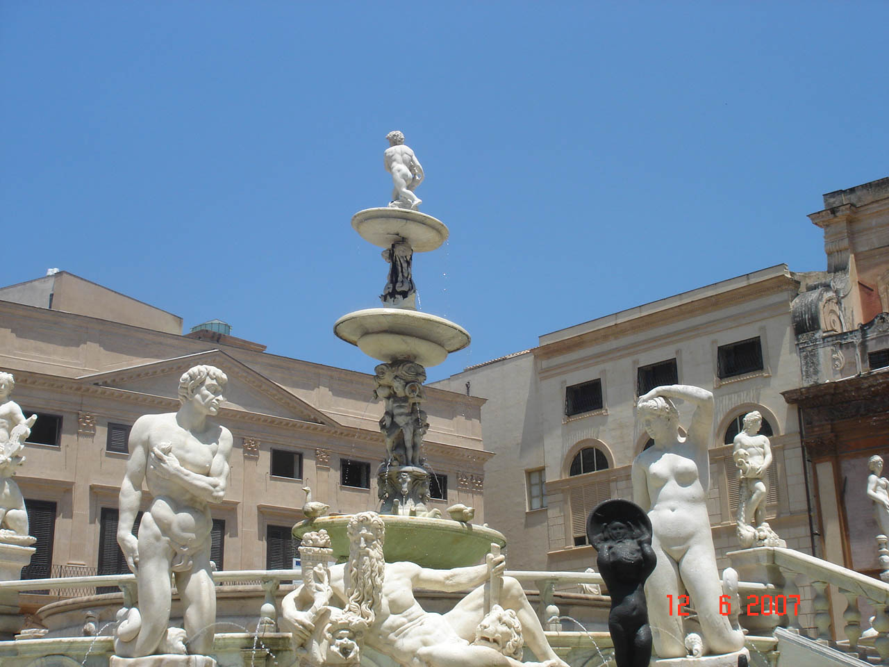 Piazza Pretoria